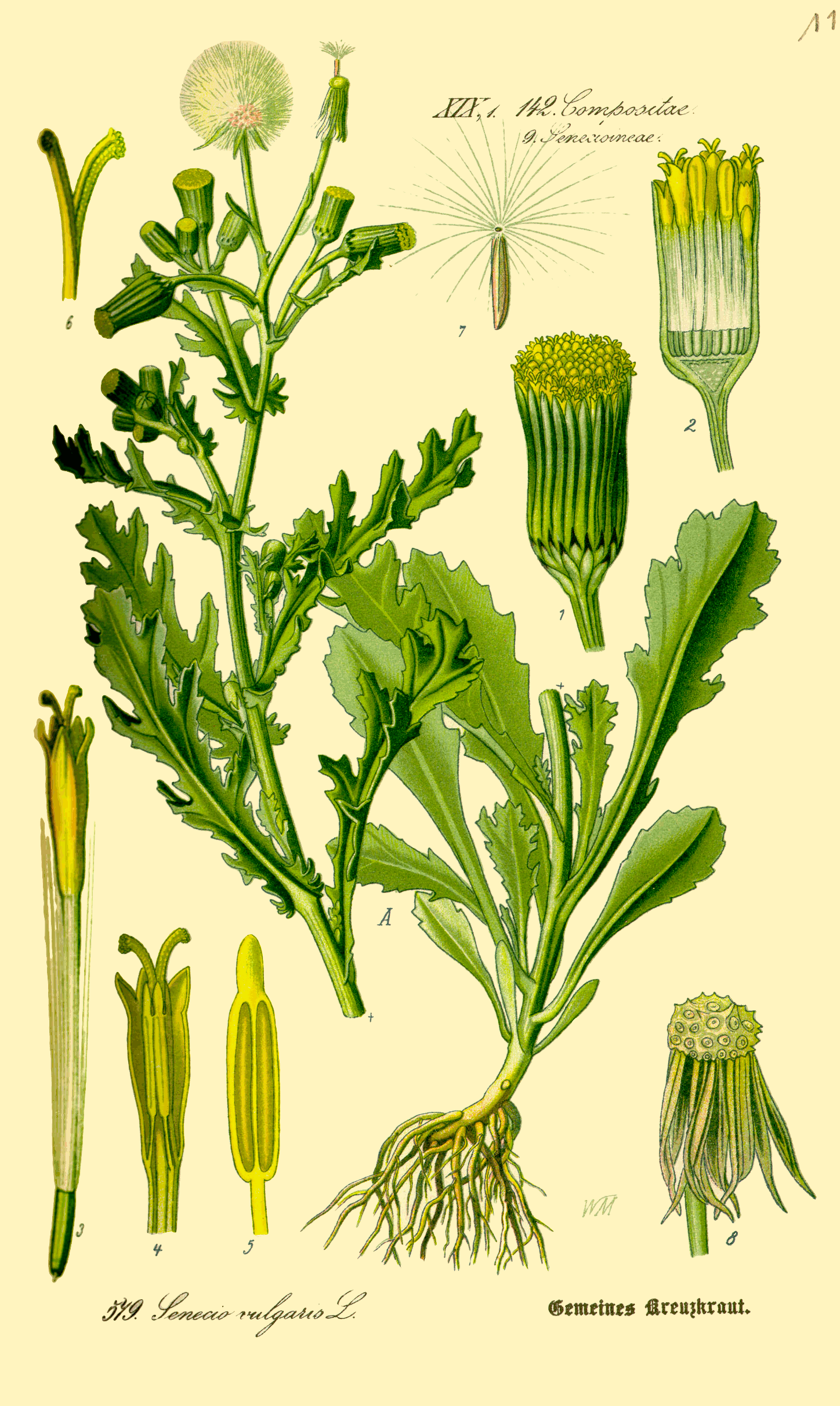 Name:Senecio vulgaris Family:Asteraceae A. Flowering stalk, rooted leaf stalk Blooming corolla Cross section of a blooming corolla Flower with stamen and fruit Cross section of flower with stamen and fruit Unopened flower Flower and stamen Achene Pericap